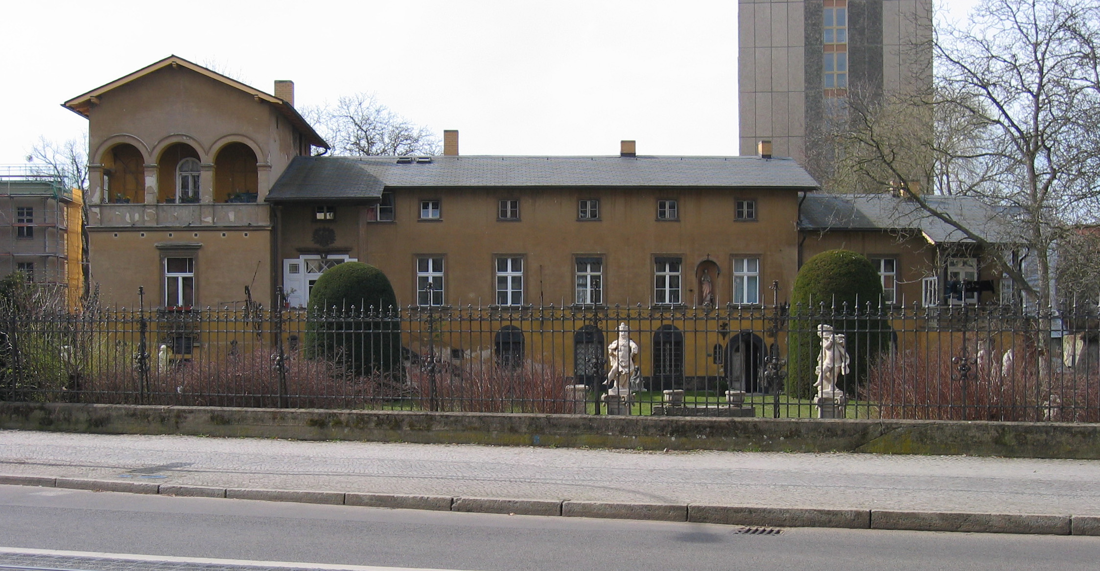 Villa Heydert in Potsdam, view from the east.